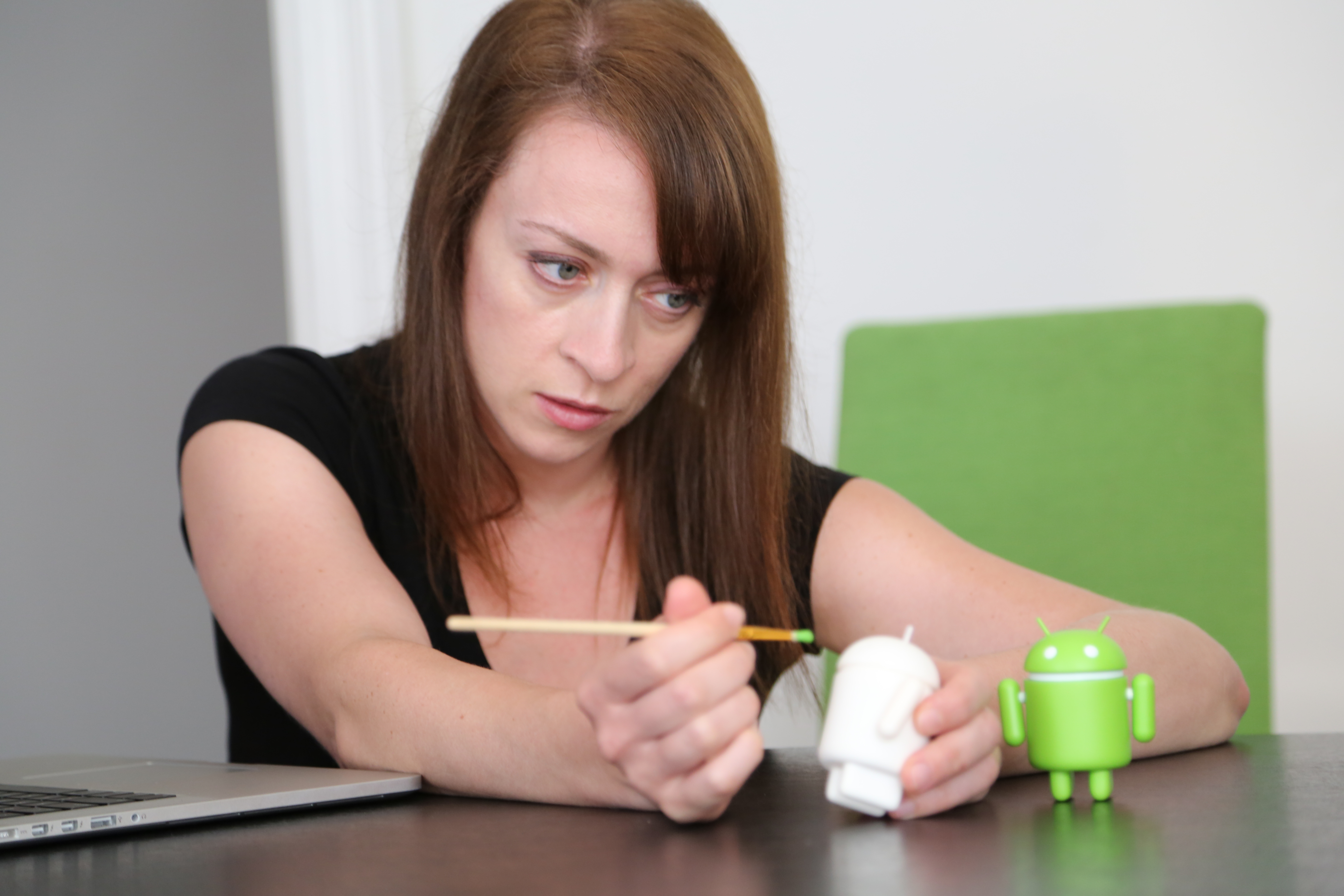 Irina Blok, creator of Android Logo. This is a personal photo I took with a signed release from Irina Blok free to use for any purpose.